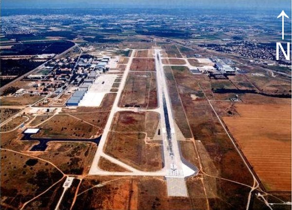 plane view of the BAN Nîmes-Garons